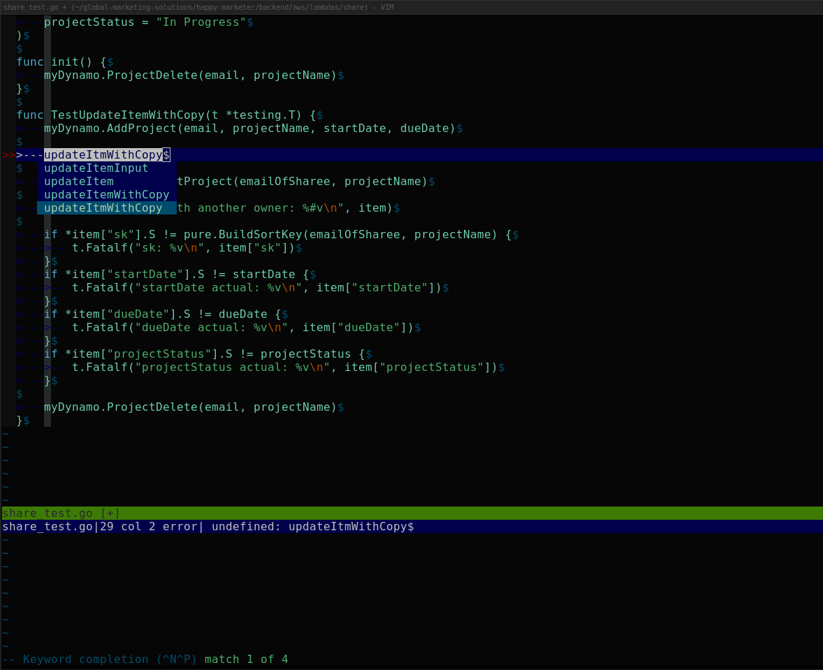 Also on this screenshot - autocompletion: integrated Vim feature